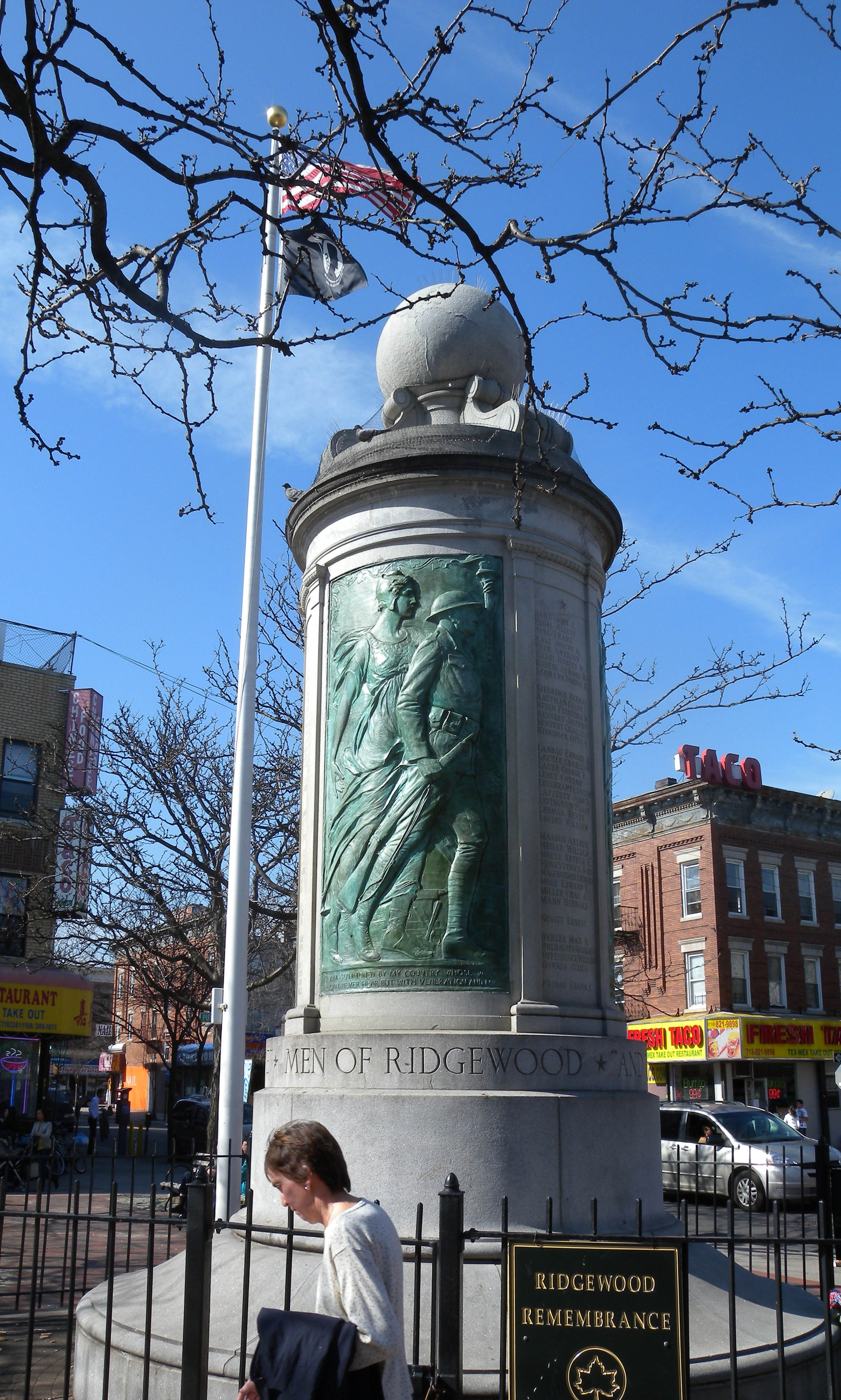 Looking north at monument in Ridgewood Veterans Triangle on a sunny afternoon. XIP 11385.